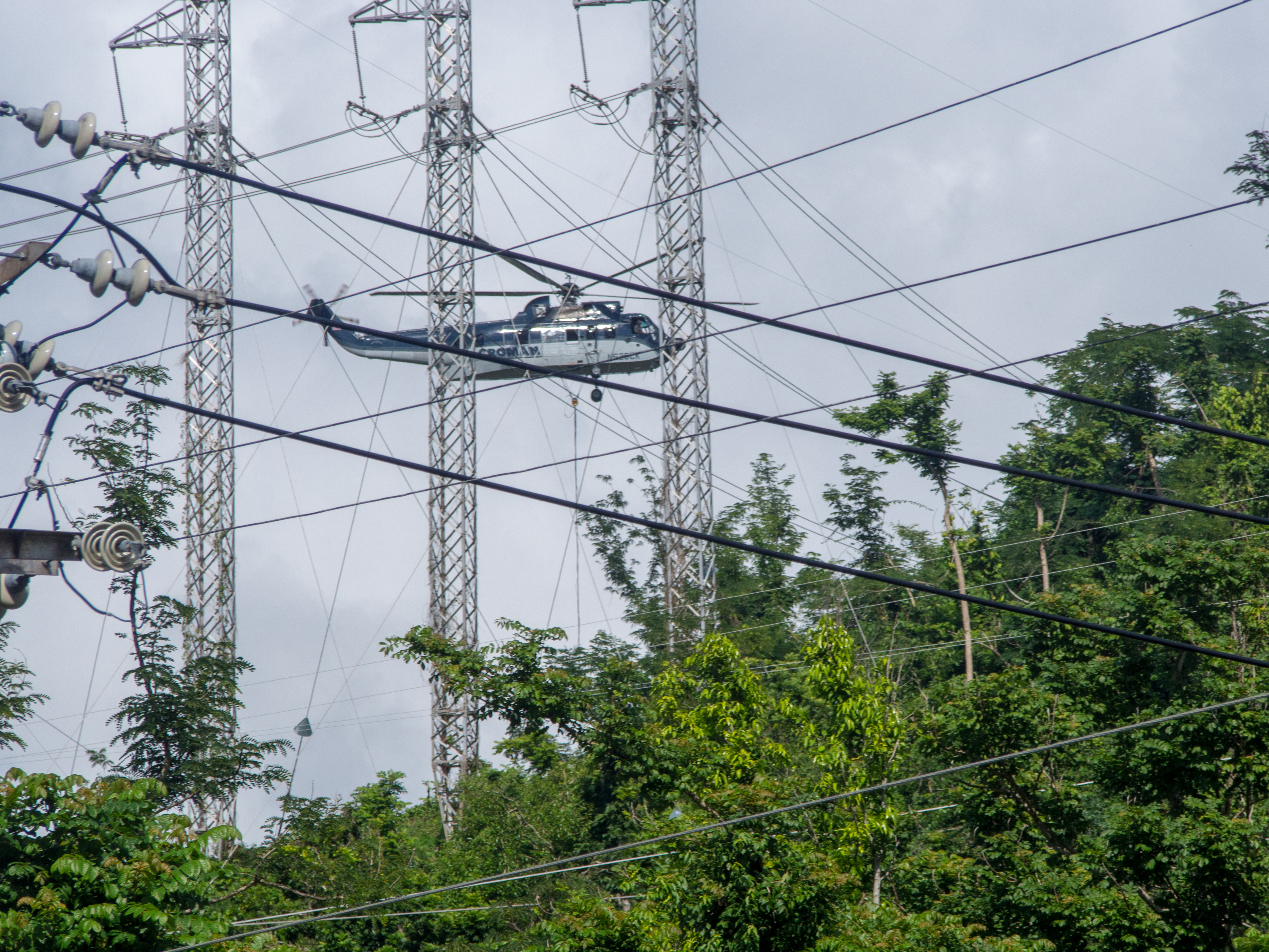 As part of the ongoing efforts to restore power to the people of Puerto Rico Doug Sullivan a pilot working with A&J Steel, Doug Sullivan helo-lifted electrical transmission lines in the small, mountain village of Trujillo Alta, Puerto Rico, on Dec. 24, 2017.